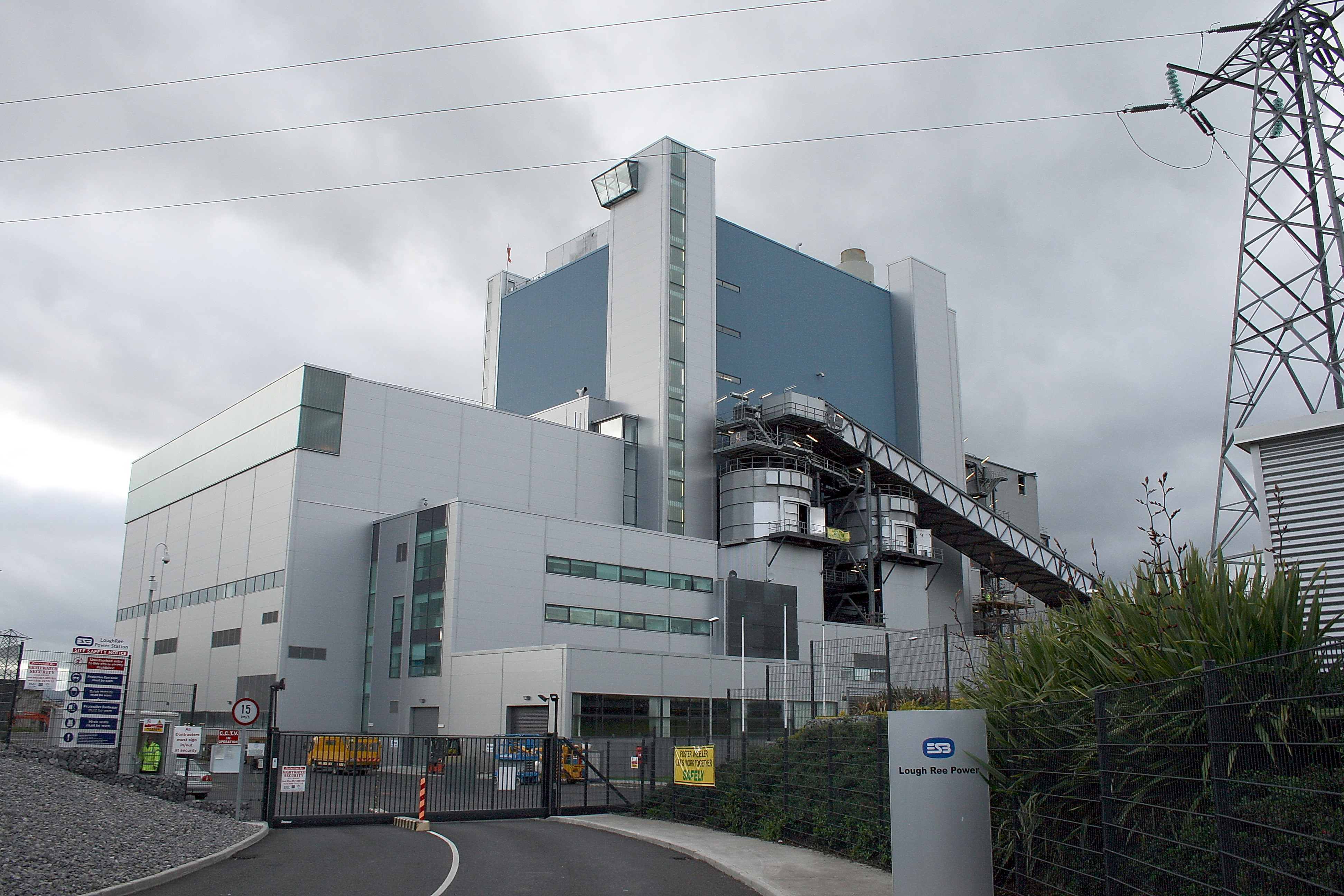 ESB - Lough Ree Power; Lanesborough, County Longford, Ireland